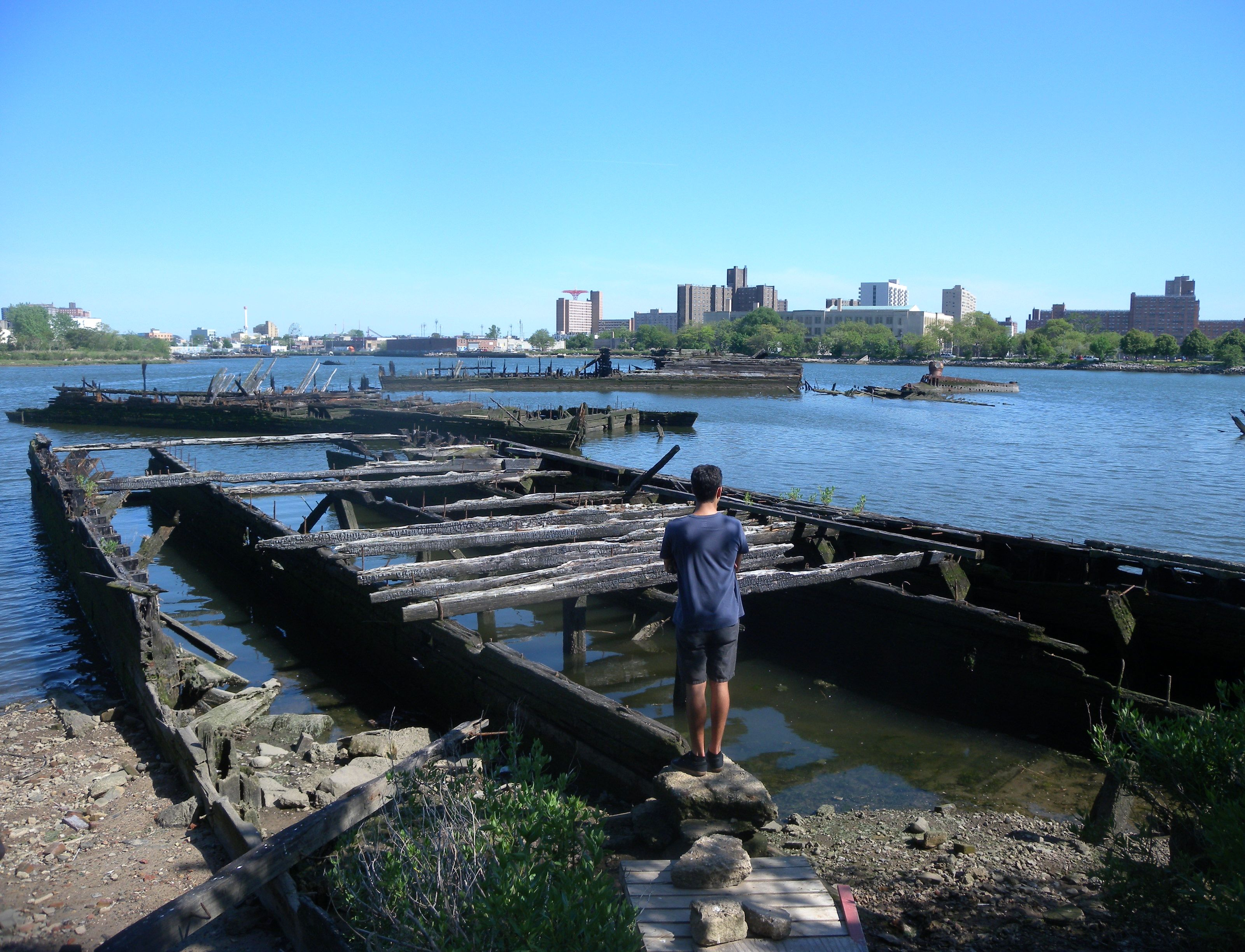 Looking south at sunken barges in mouth of Coney Island Creek on a sunny afternoon.